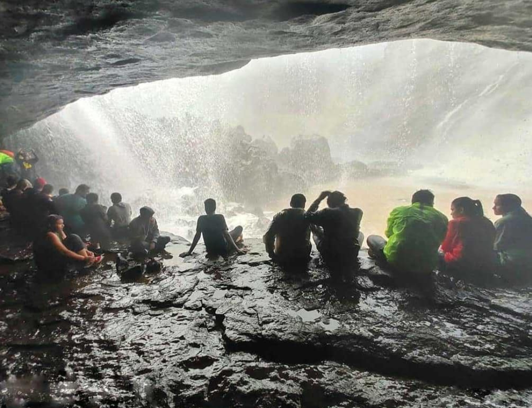 Eye Shaped Cave Behind Kataldhar Waterfall